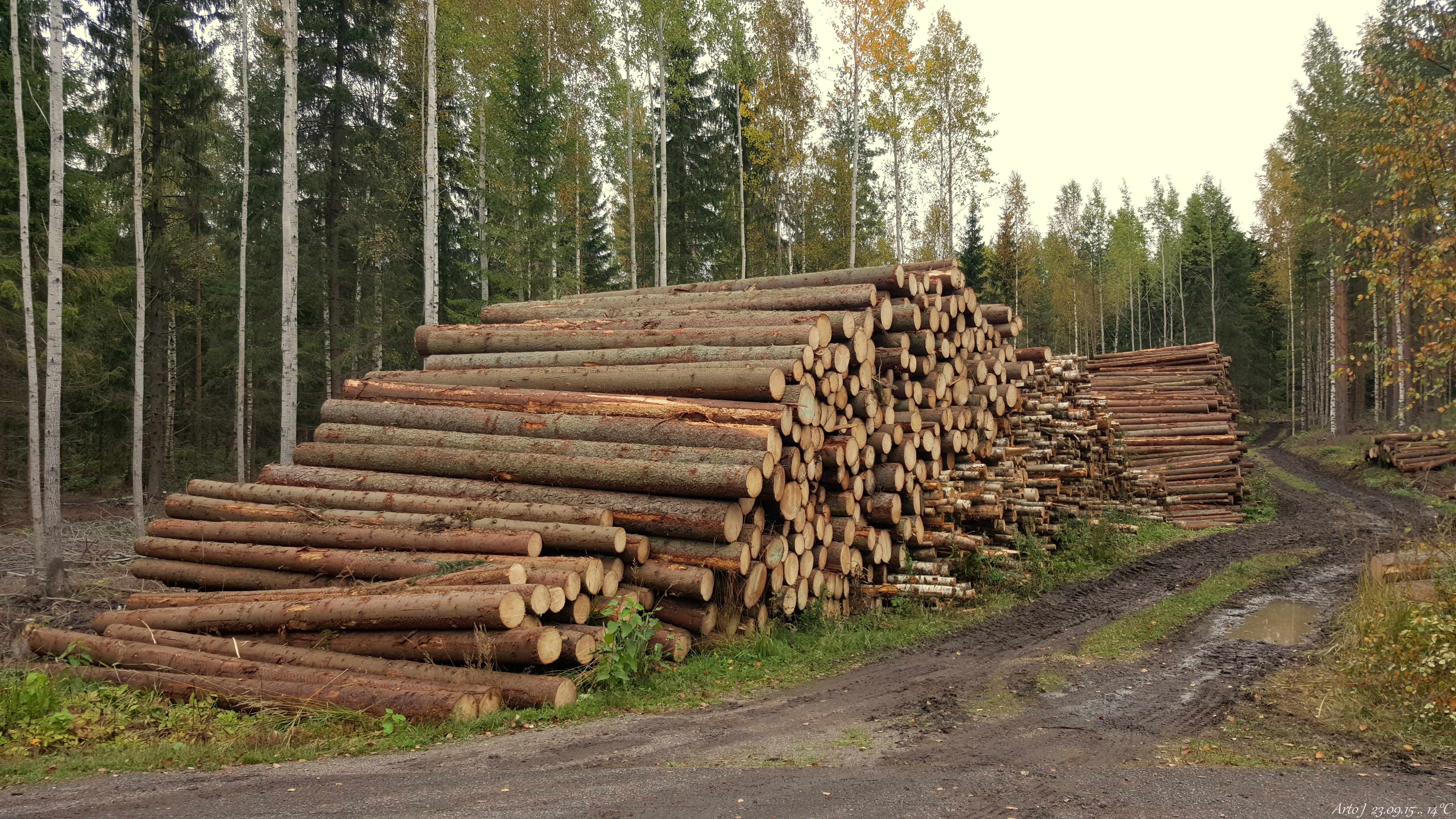 The paper raw material.